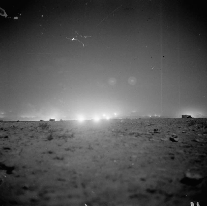 General view of the British night artillery barrage which opened the second Battle of El Alamein. Infantry carriers and ambulances waiting to move up are silhouetted against the glare from the guns